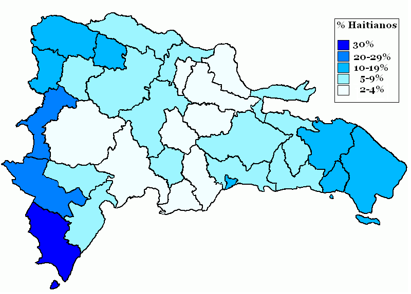 The map shows the percentage of the Haitian-born people among the population for each province in the Dominican Republic.Numbers have been rounded to nearest integer for coloring purposes.